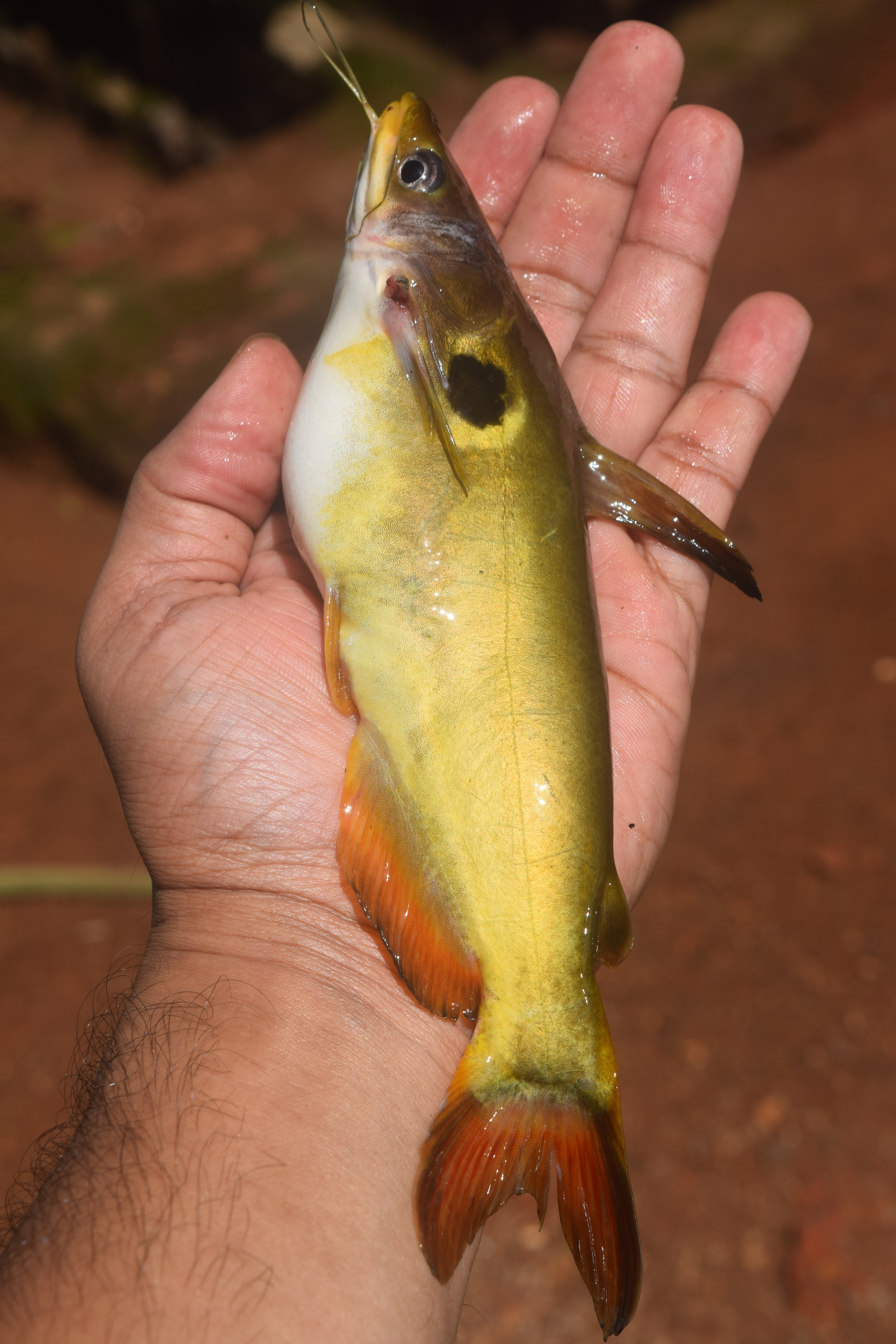 Horabagrus brachysoma